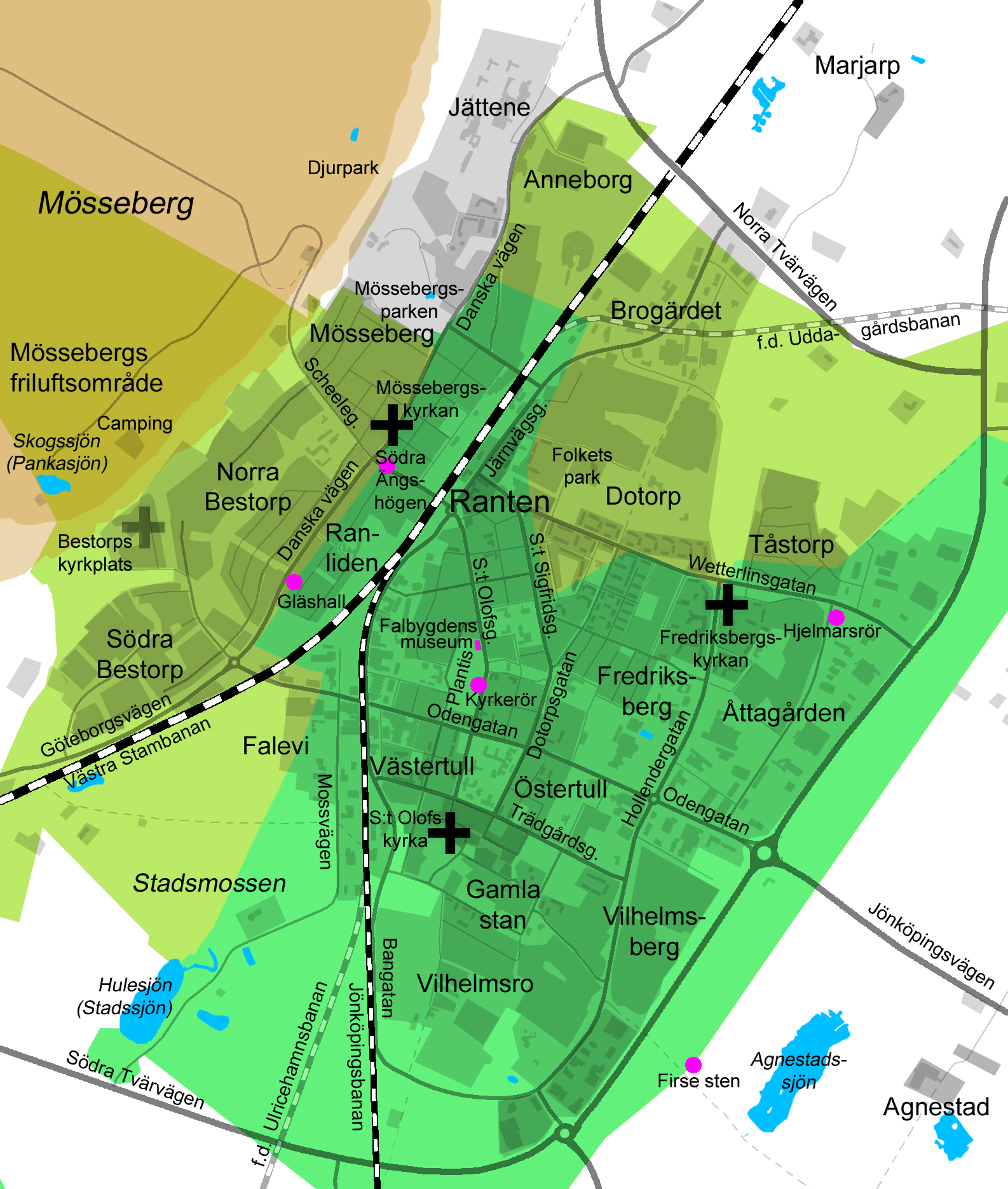 Map over the town of Falköping in Falköping Municipality, former Skaraborg County, Västergötland, Västra Götaland County, Sweden. Scale 1:10,000. The area of the town of Falköping is marked green, while the Western parish of Falköping in yellowgreen. The table mountain Mösseberg is marked brown. The lakes and ponds are marked blue. The churches of Saint Olof, Mösseberg, and Fredriksberg are marked with black crosses. The place for the church in Bestorp is marked with a grey cross. Railways are black-and-white. Roads, town areas, villages, farms, and large buildings are marked grey.